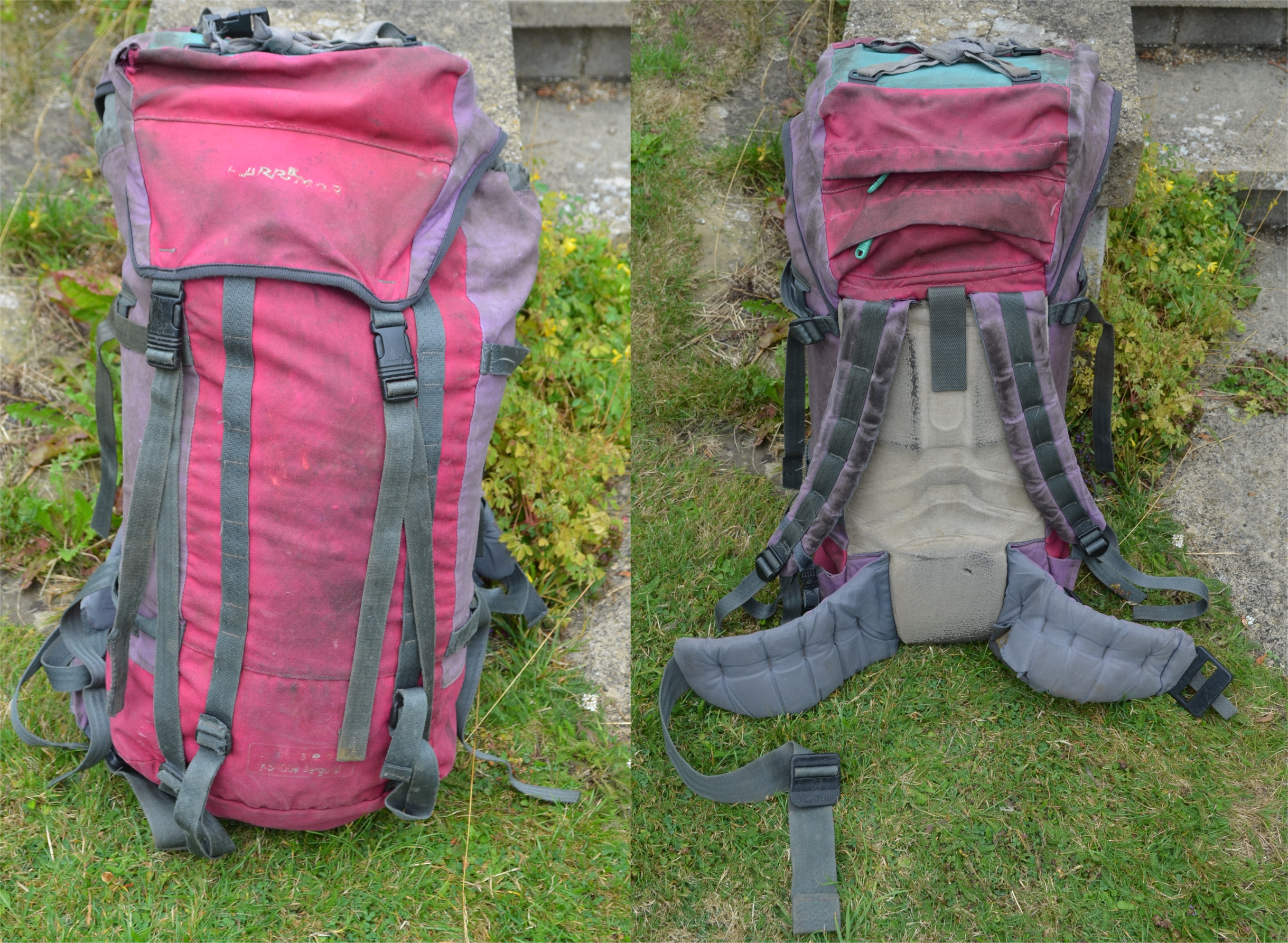 65-litre Karrimor Alpiniste rucksack from the early 1990s.